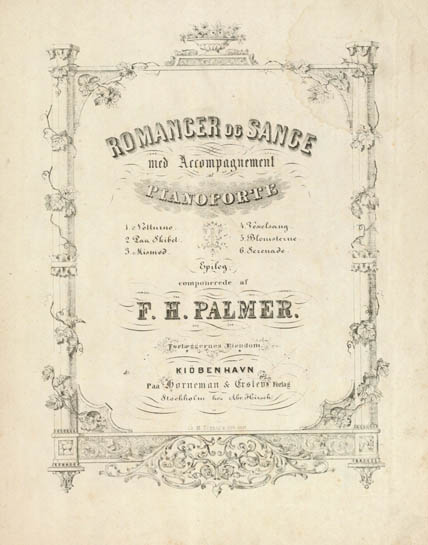 Title leaf from the fifth volume of Emma Gartmanns pseudonymously published romances.